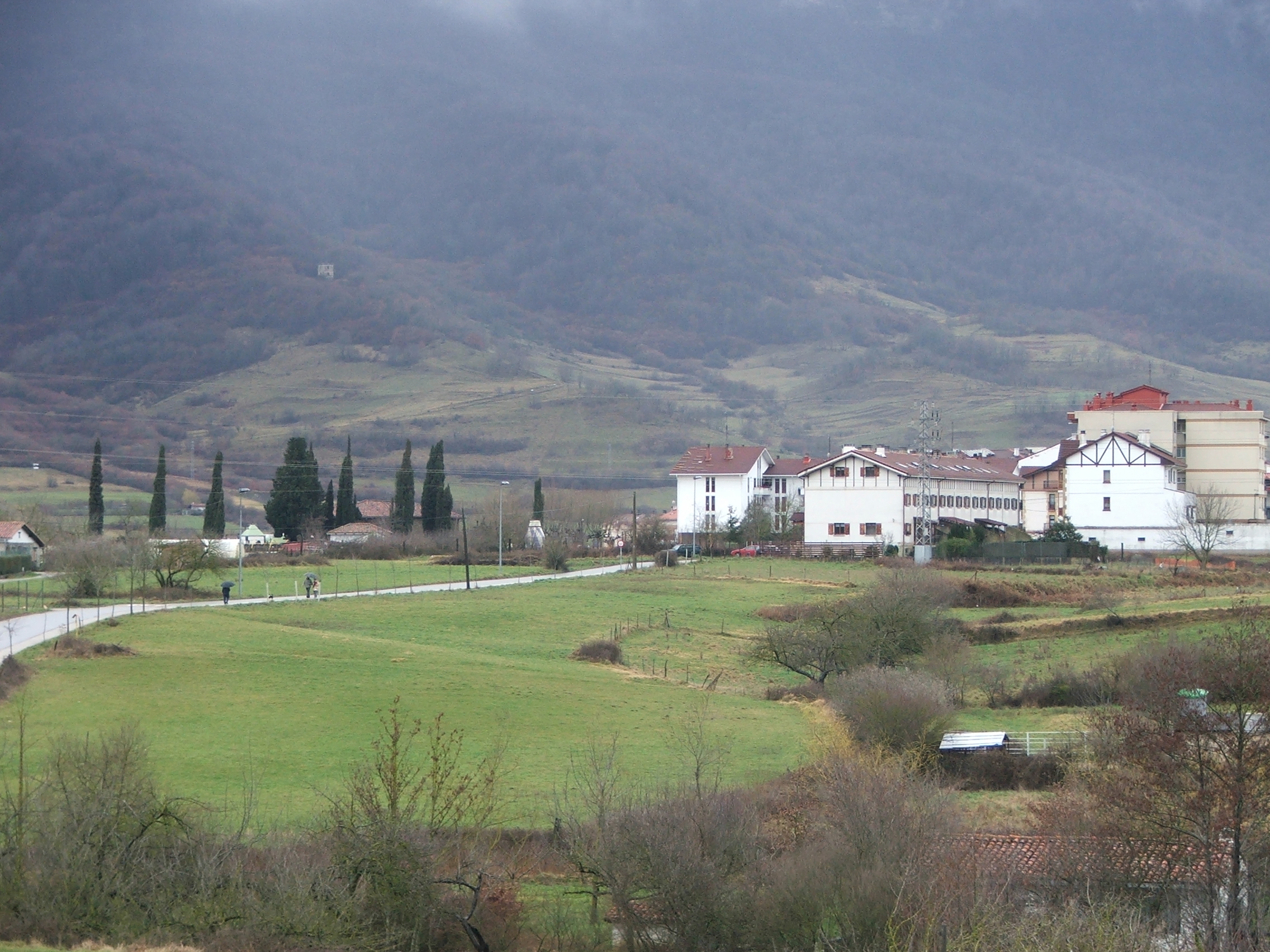 Buztindegi in Altsasu, Basque Country.